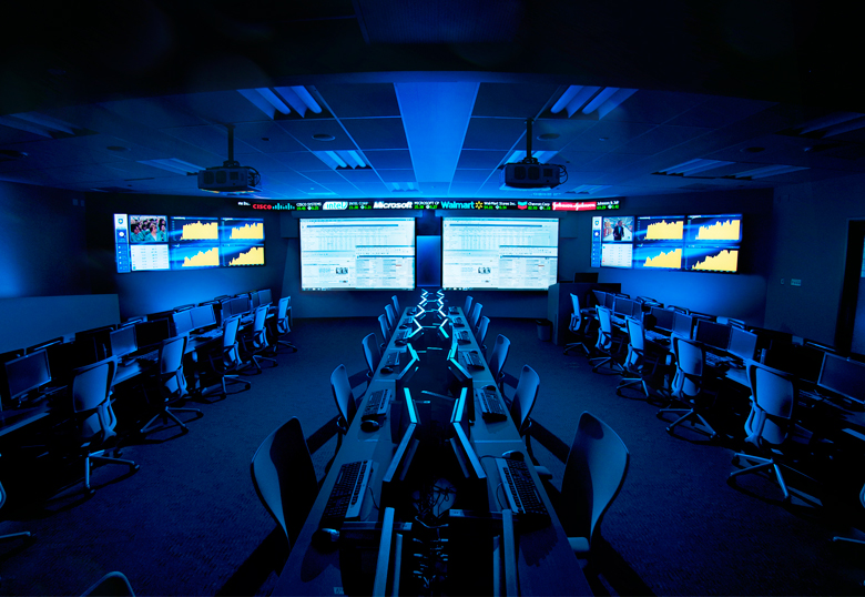 TradingFloormain 0